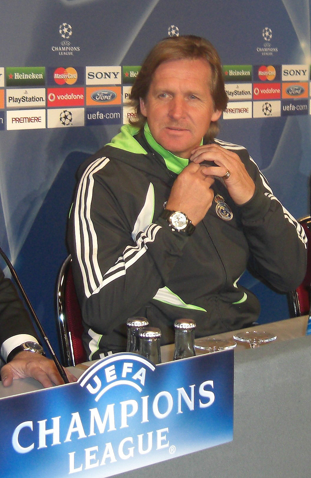 Champions League-Match Werder Bremen - Real Madrid 2:3